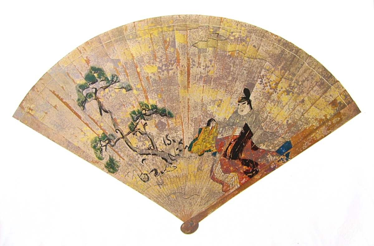 Painted fan, gold and color on wood(Japanese cypress) folding fan, height about 30cm wide about 45cm, late 12th century, Heian Period, Itsukushima Shrine, Hatsukaichi, Hiroshima, Japan